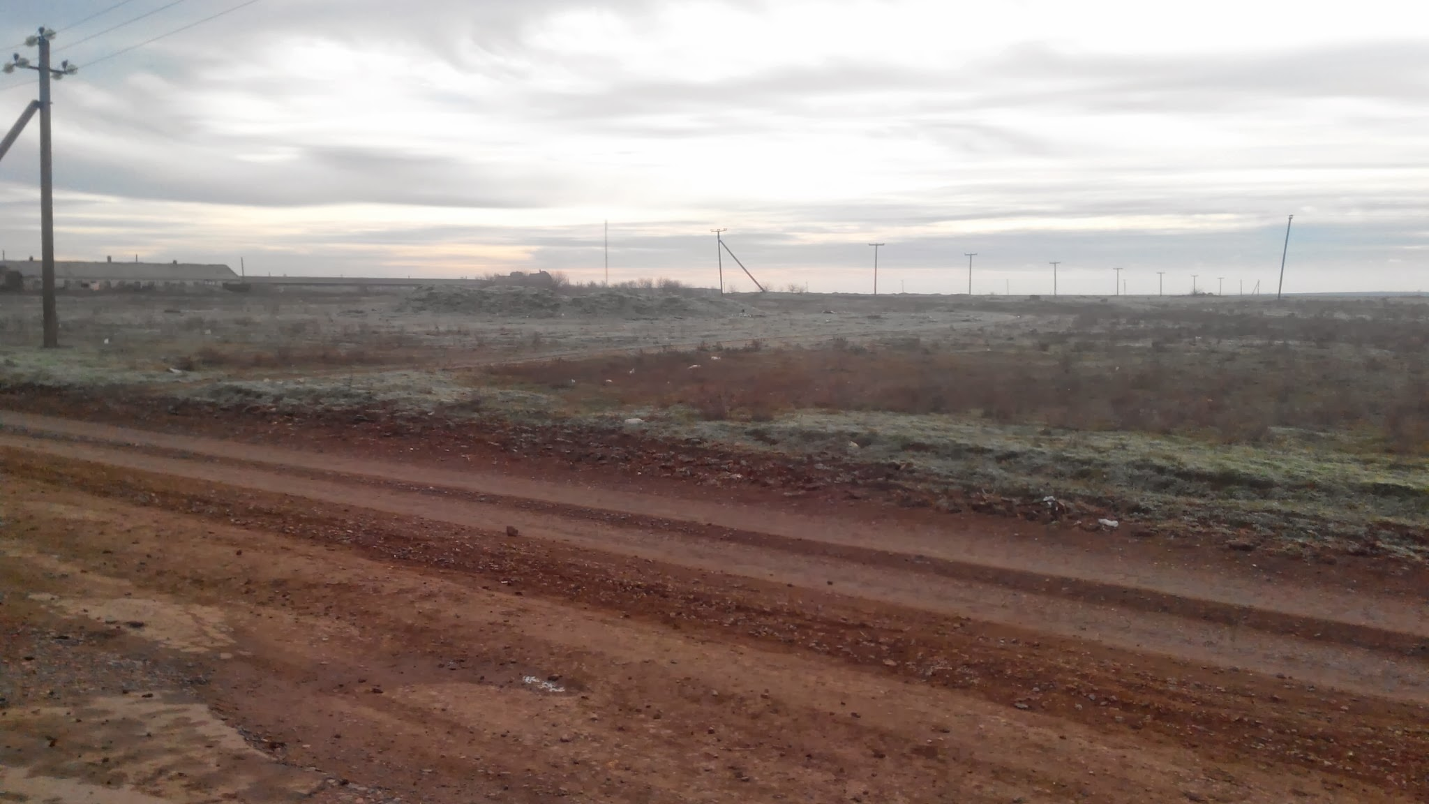 Field near Chonhar, Kherson Oblast, Ukraine